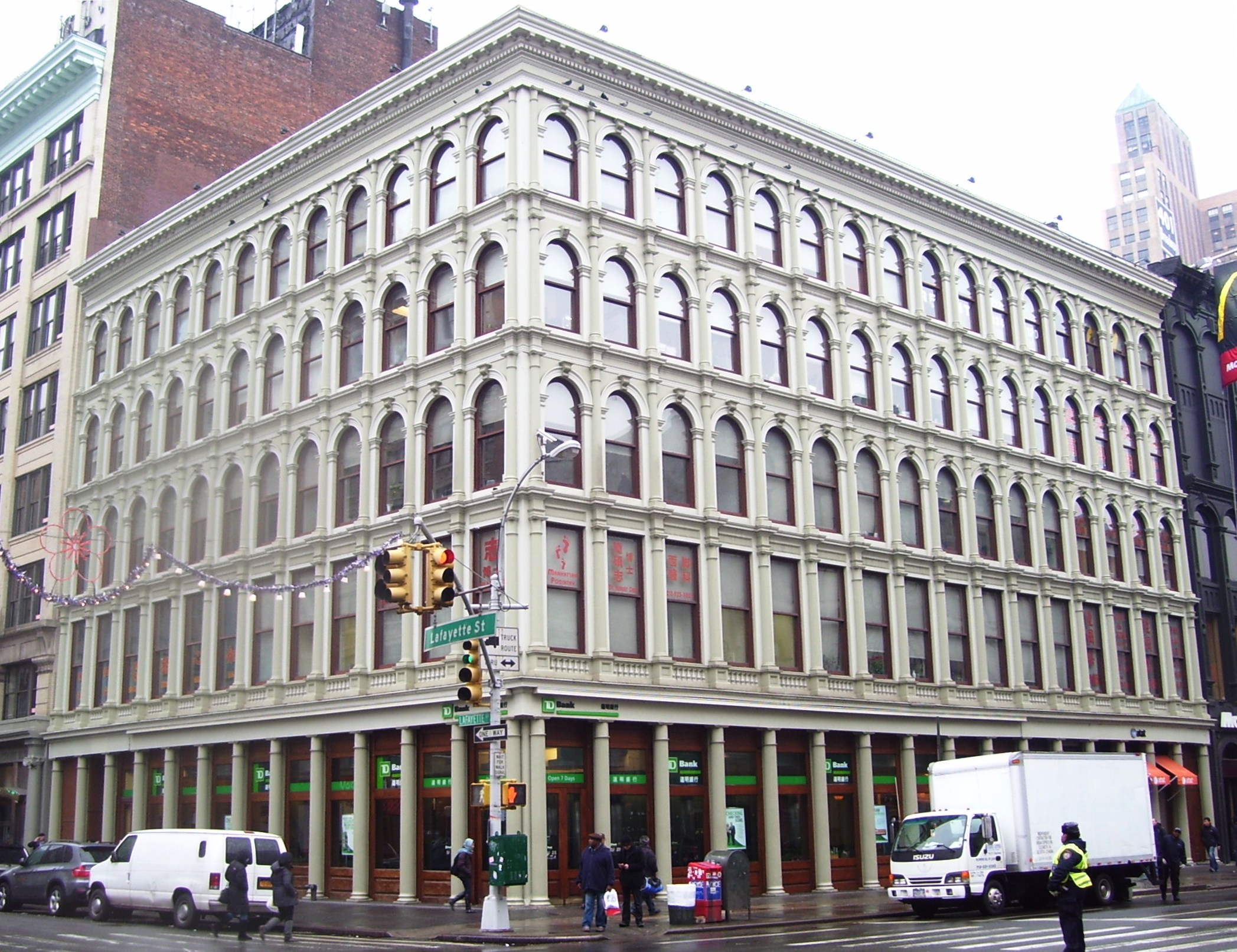 254-260 Canal Street on the corner of Lafayette Street in the Chinatown neighborhood of Manhattan, New York City, was buit in 1856-57 and was designed in the Italian Renaissance revival style. The cast-iron elements may have been provided by James Bogardus, a pioneer in the use of cast iron in architecture. The building was designated a NYC landmark in 1985. (Source: Guide to NYC Landmarks (4th ed.))